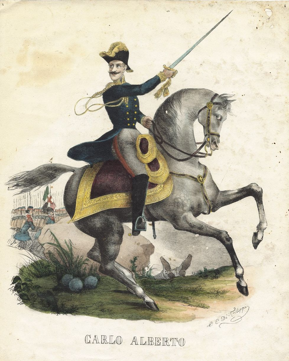 Watercolor lithograph of an equestrian portrait of Charles Albert, King of Sardinia (1798-1849)